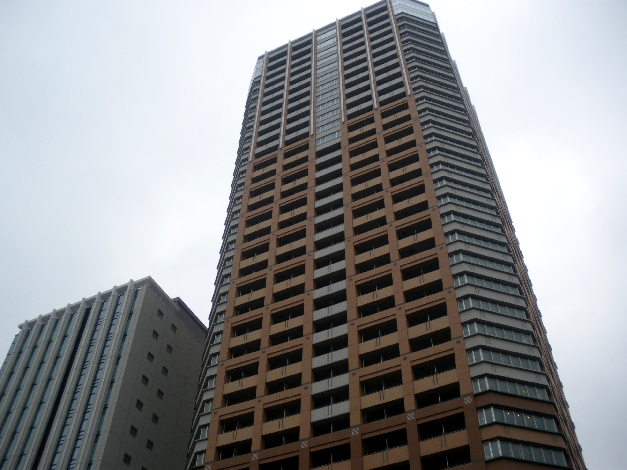 Proud Tower Chiyodafujimi(Chiyoda,Tokyo)